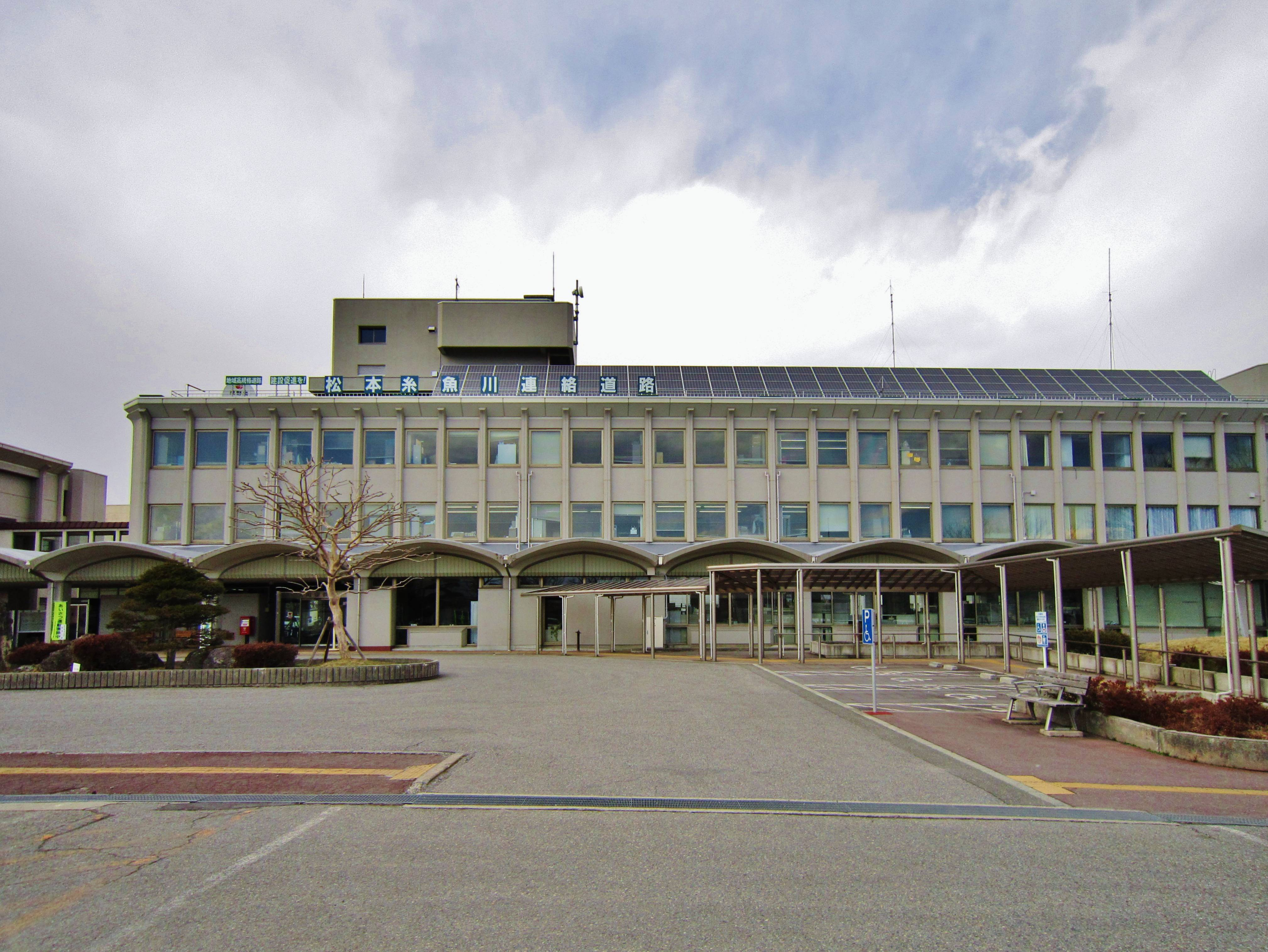 Ōmachi city office.